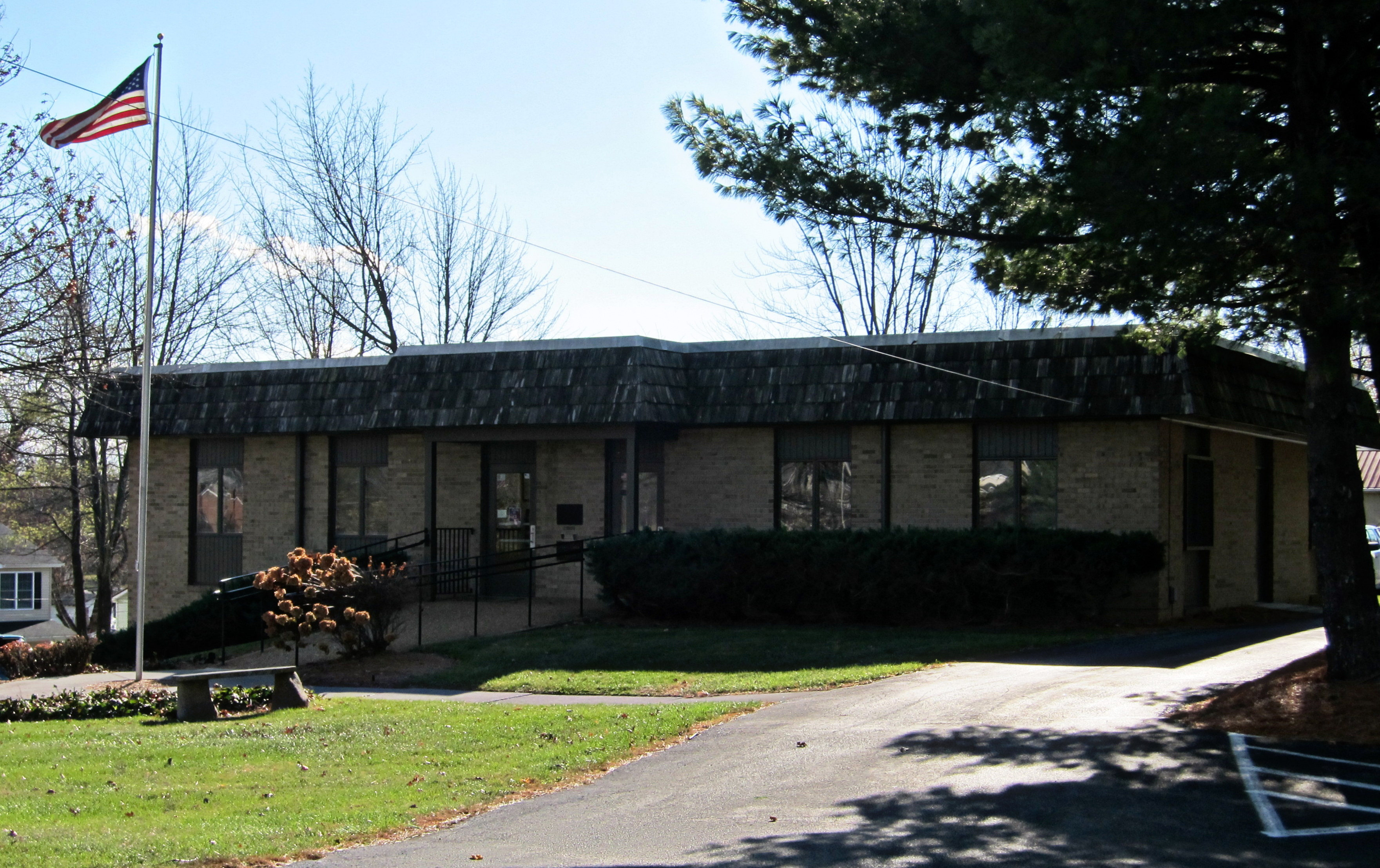 The Town Office in Stephens City, Virginia, located at 1033 Locust Street.